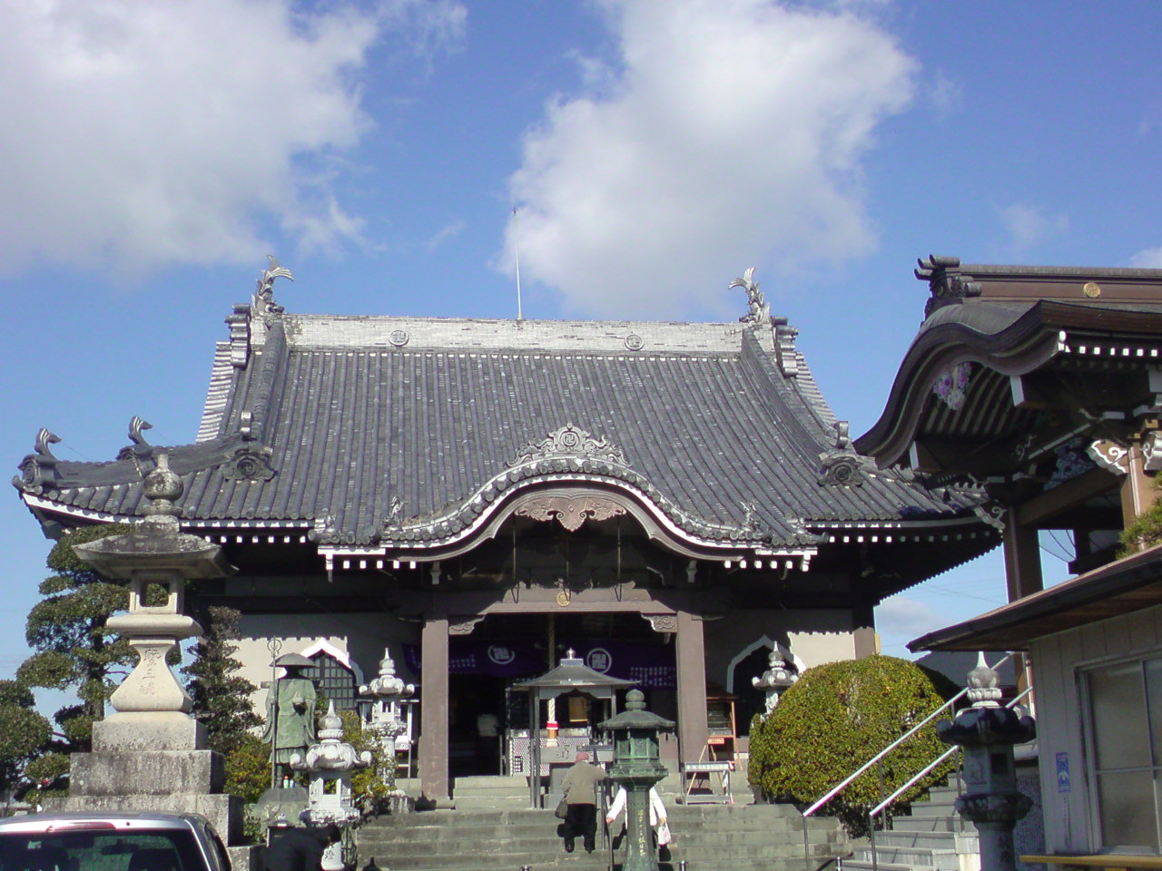 Hondo of Idoji Temple, Tokushima city, Tokushima Pref., Japan